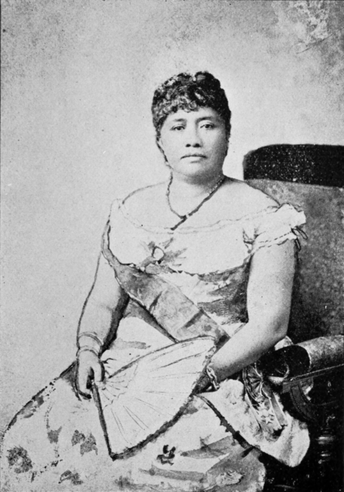 Princess Liliuokalani of Hawaii.